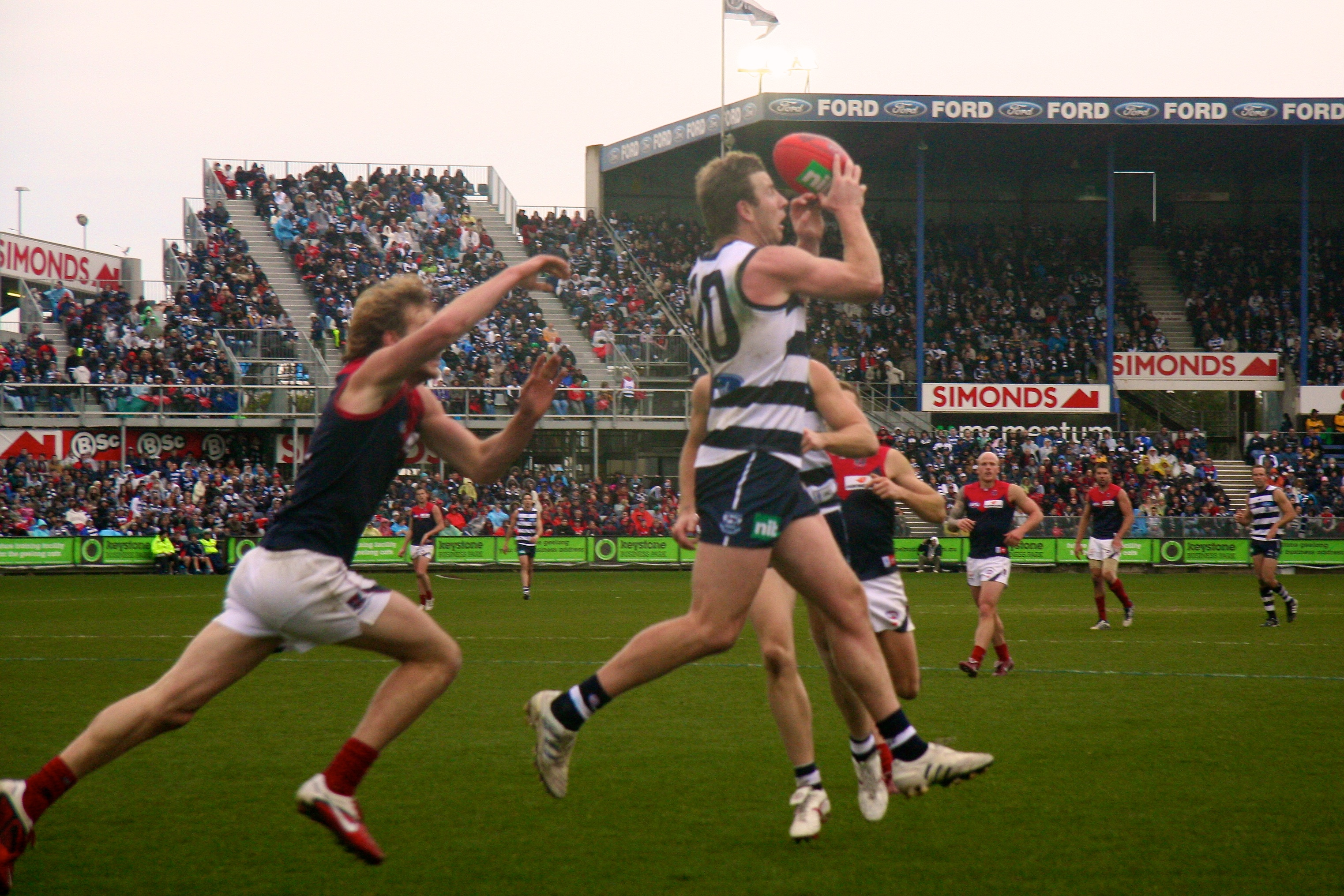 Steve Johnson of the Geelong Football Club marking in front of Jack Watts of the Melbourne Football Club in July 2011